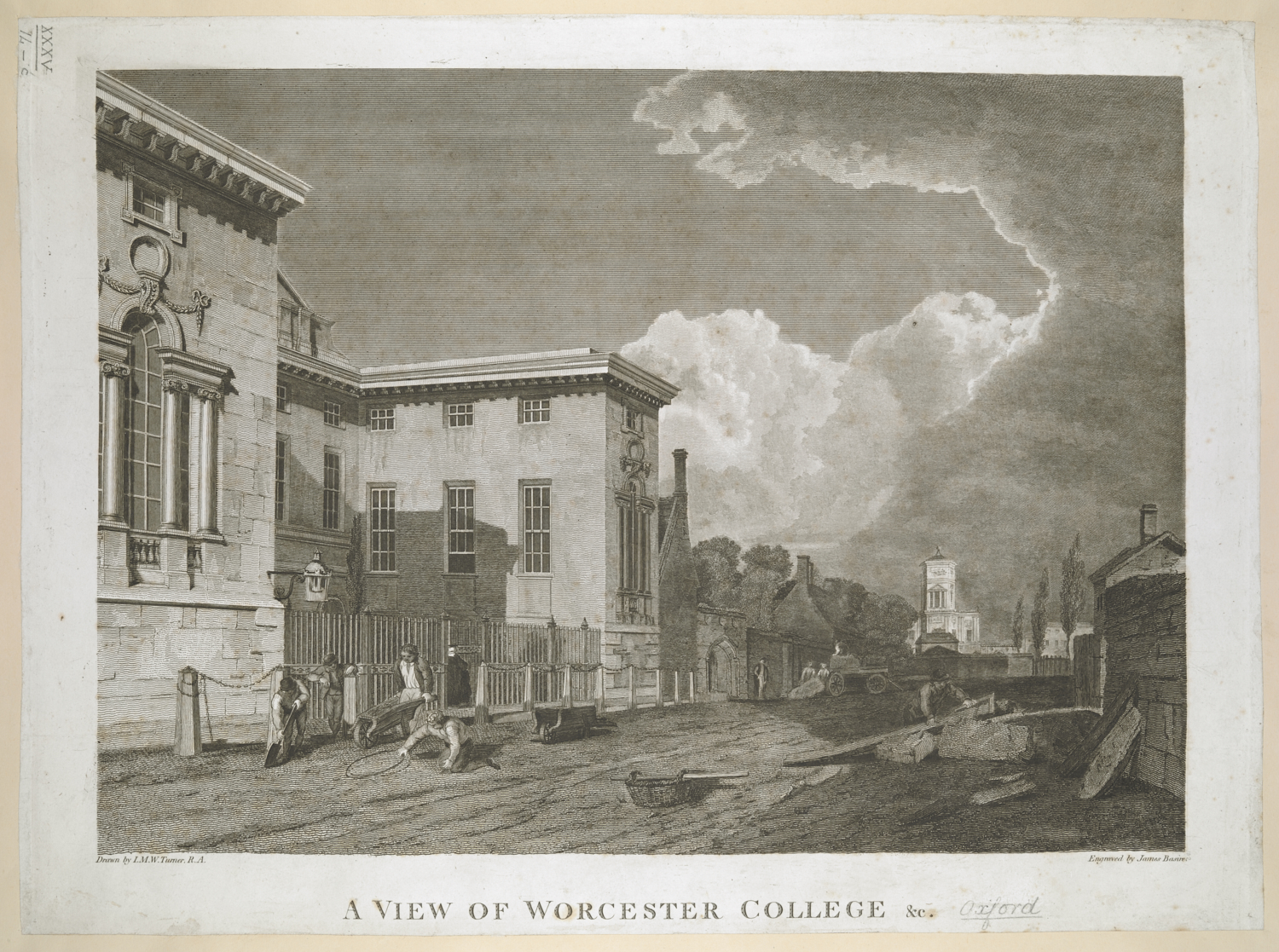 One of Turner's drawings (perhaps watercolour) engraved for illustration in the 1804 Oxford Almanack.